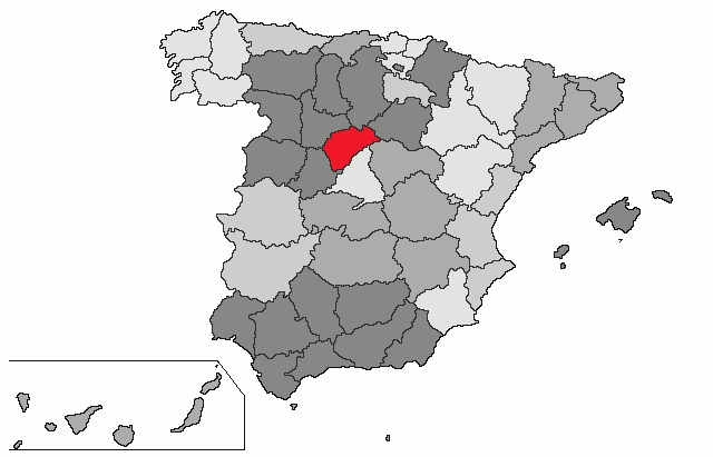 ES: Provincia de Segovia EN: Province of Segovia Based in: Image:ProvPont.jpg Source: Designed by Leoplus. Original picture, designed by Sobreira.